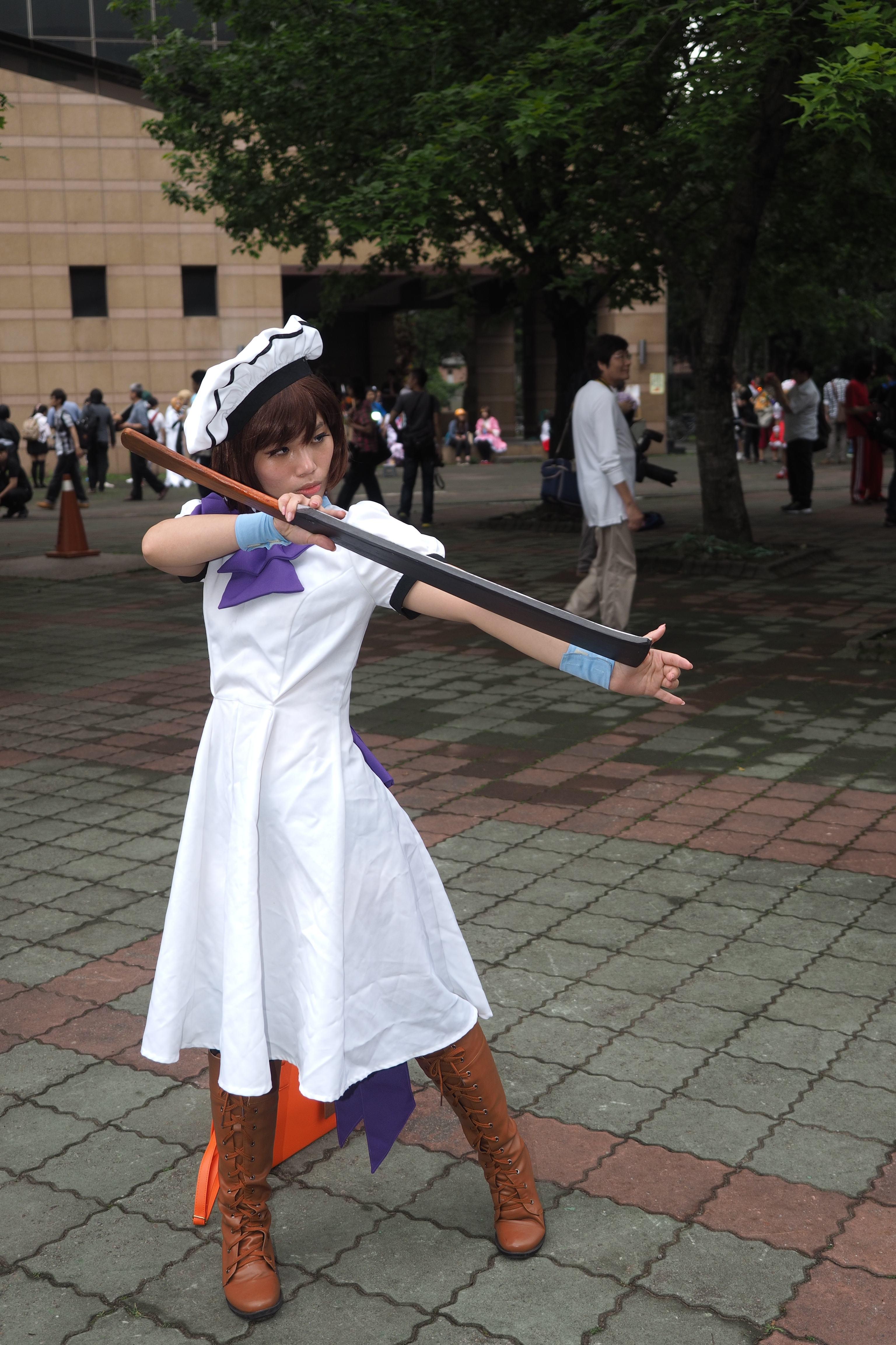 Petit Fancy 20 Petit Fancy 20